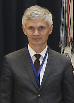 190910-N-IK388-006 NORFOLK (Sept. 10, 2019) Adm. Christopher W. Grady, commander, U.S. Fleet Forces (USFF) Command, left, and Vice Adm. Andrew Lewis, commander, U.S. 2nd Fleet, far right, pose with participants of the Nordic-Baltic-U.S. Forum Deputy Minister of Defense Conference at the USFF headquarters building on Naval Support Activity Hampton Roads. (U.S. Navy photo by Mass Communication Specialist 2nd Class Stacy M. Atkins Ricks/Released)